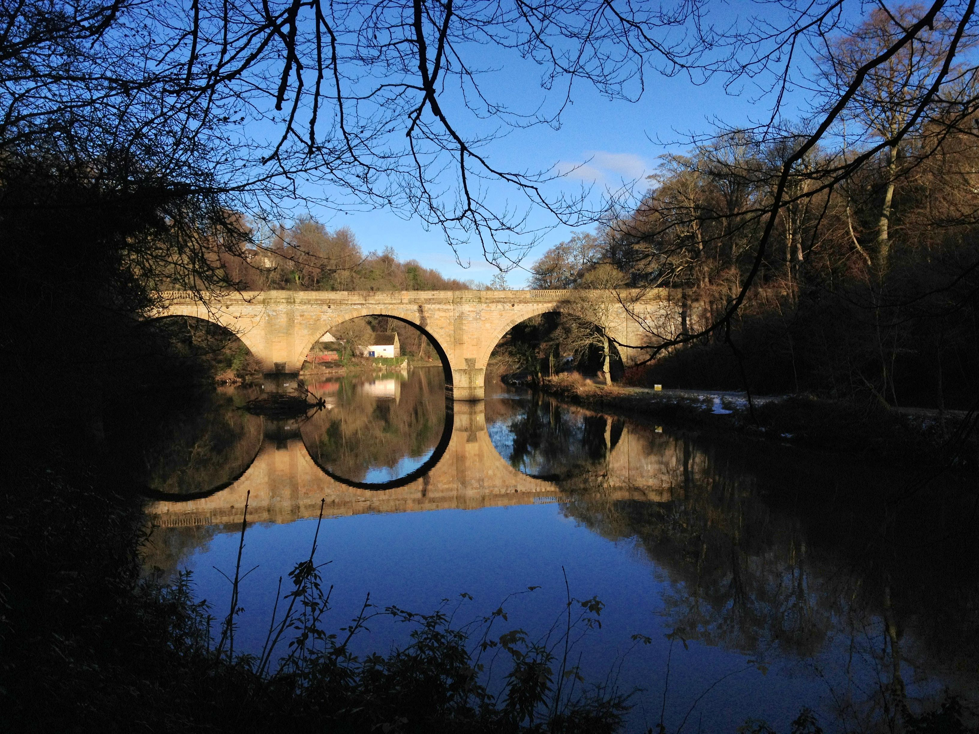 Prebends Bridge, Durham in Winter, December 2012 (from upstream)